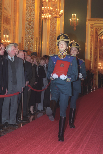 ST ANDREW HALL IN THE GRAND KREMLIN PALACE, MOSCOW. The inauguration of President Vladimir Putin. The Constitution is being brought into the hall.